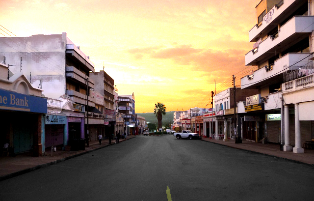 Sunset over Kisumu, Kenya's third town.